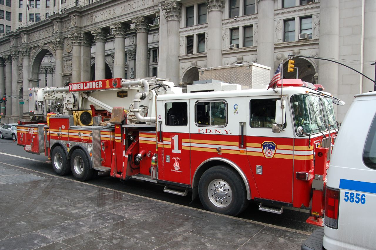 FDNY Tower Ladder 1